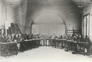 Hawkesbury: Science Lecture Theatre (1899)Hawkesbury Agricultural College